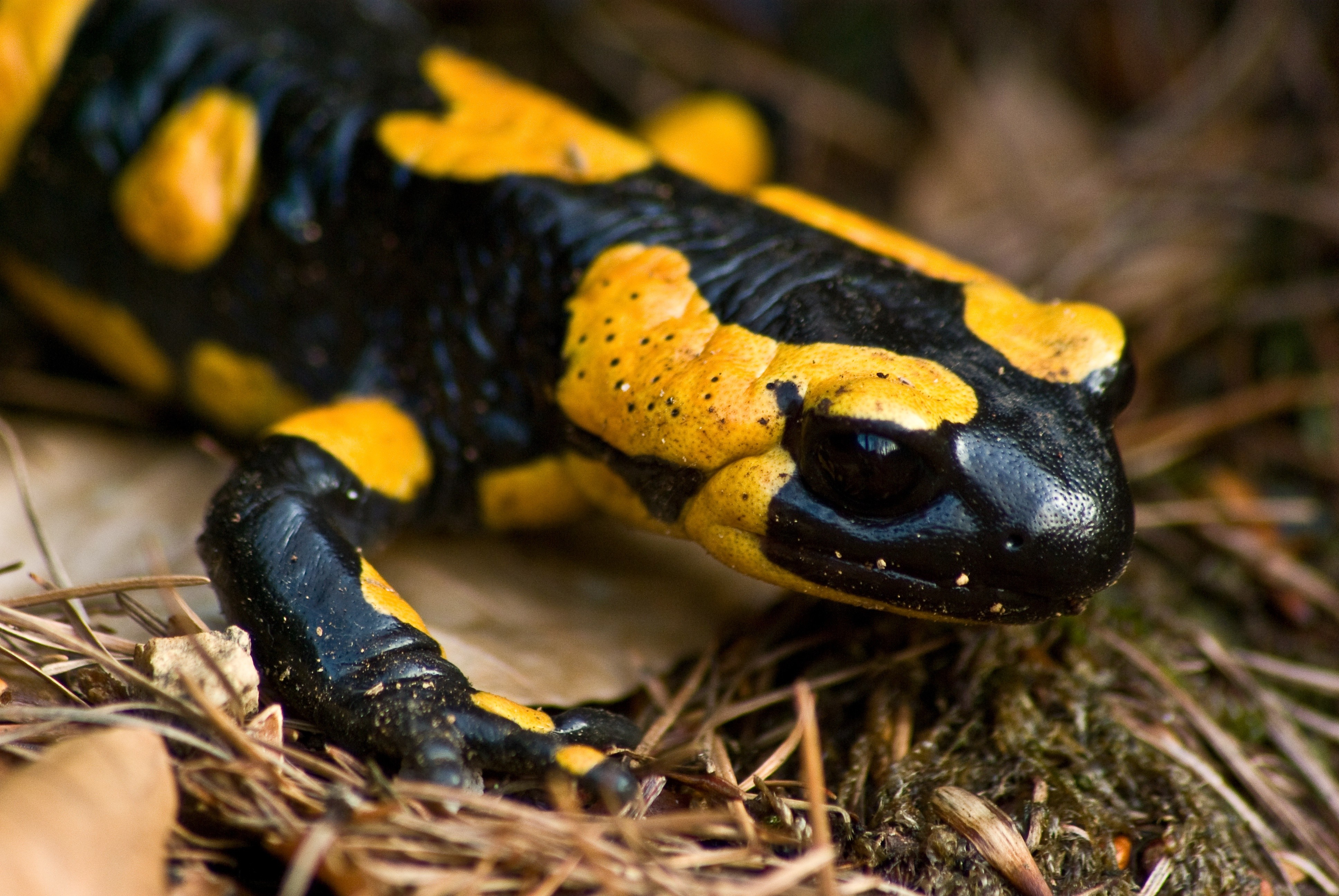 Fire salamander (Salamandra salamandra)